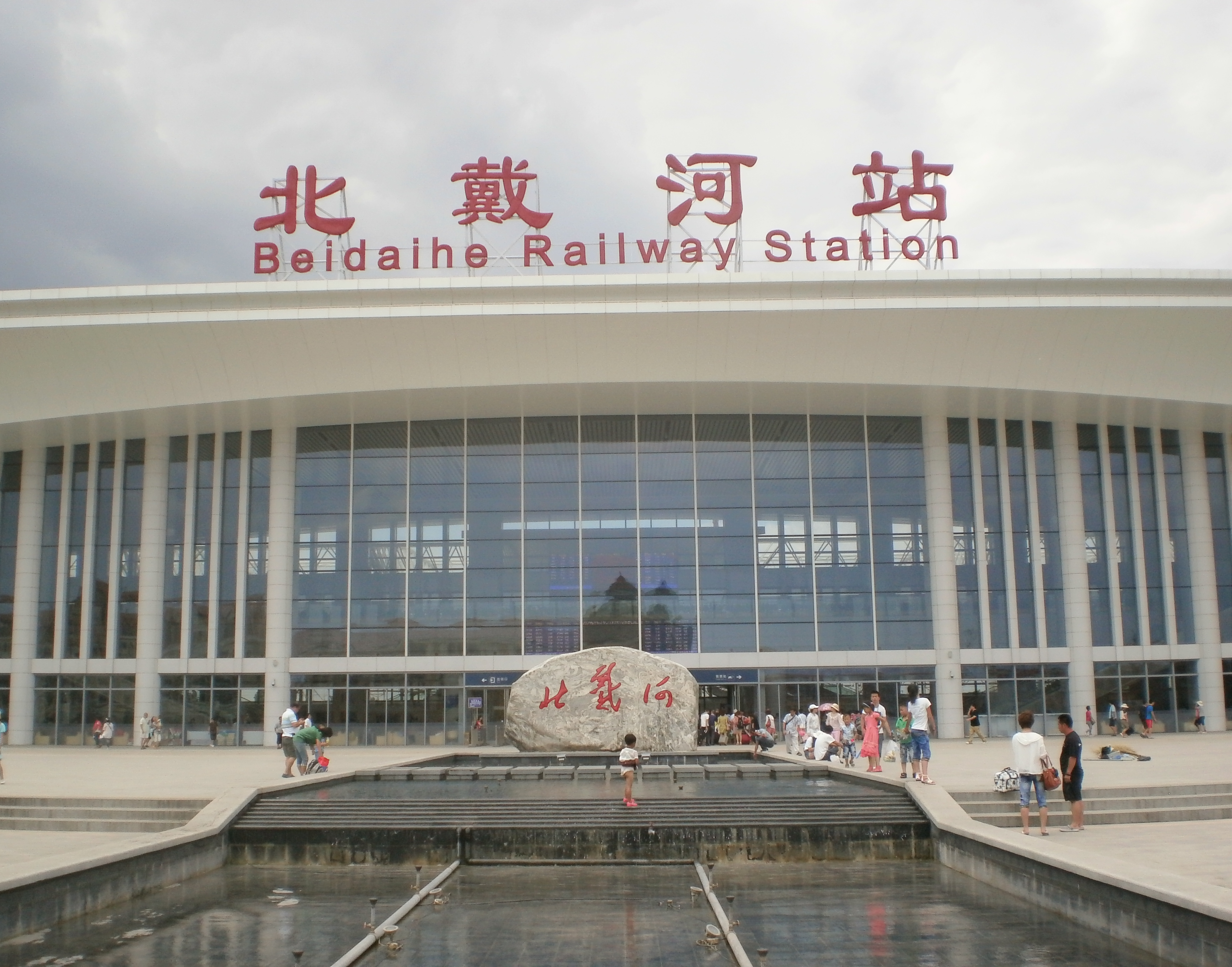 Beidaihe Railway Station